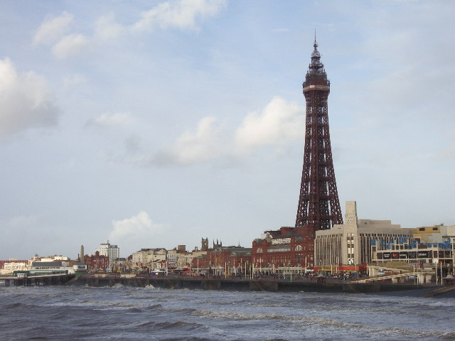 View of Blackpool Tower. The last day of the season and illuminations for 2005. Taken from Central Pier